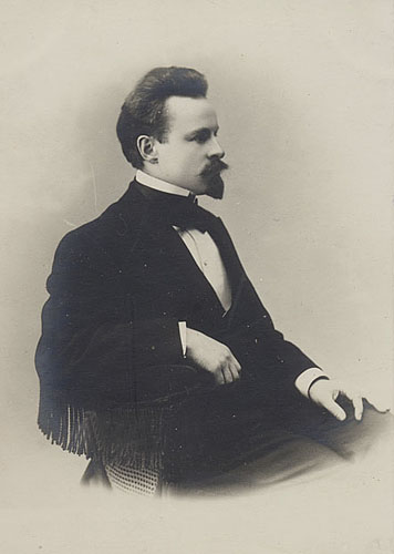 Russian poet K. Balmont in 1880s